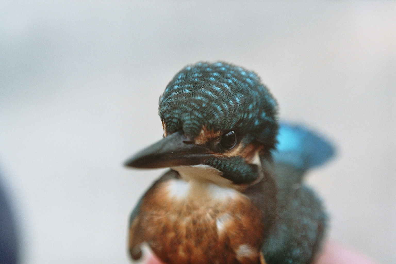 Alcedo atthis, Benešov nad Černou, South Bohemian Region, Czech Republic